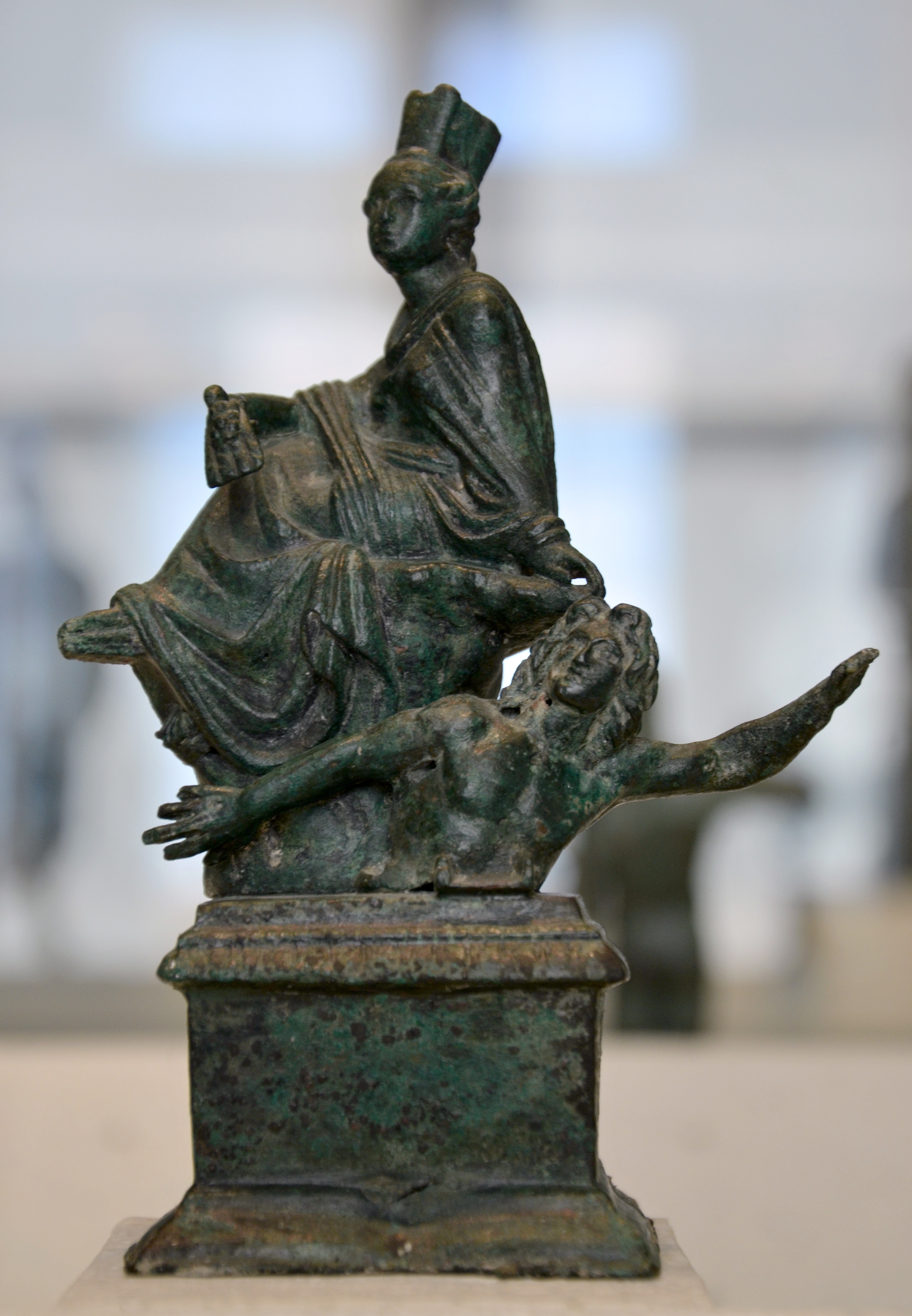 The city of Antioch on the Orontes is identified with Tyche, goddess of fortune and protector of the town. She is represented seated on a rock, wearing a crown with crenelated towers. At her feet the bust of a young swimmer emerges from the waves: he is a personification of the river Orontes, beside which the town was founded.